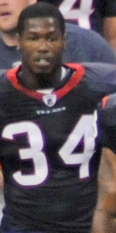 2010 preseason NFL game at Reliant Stadium in Houston, Texas.